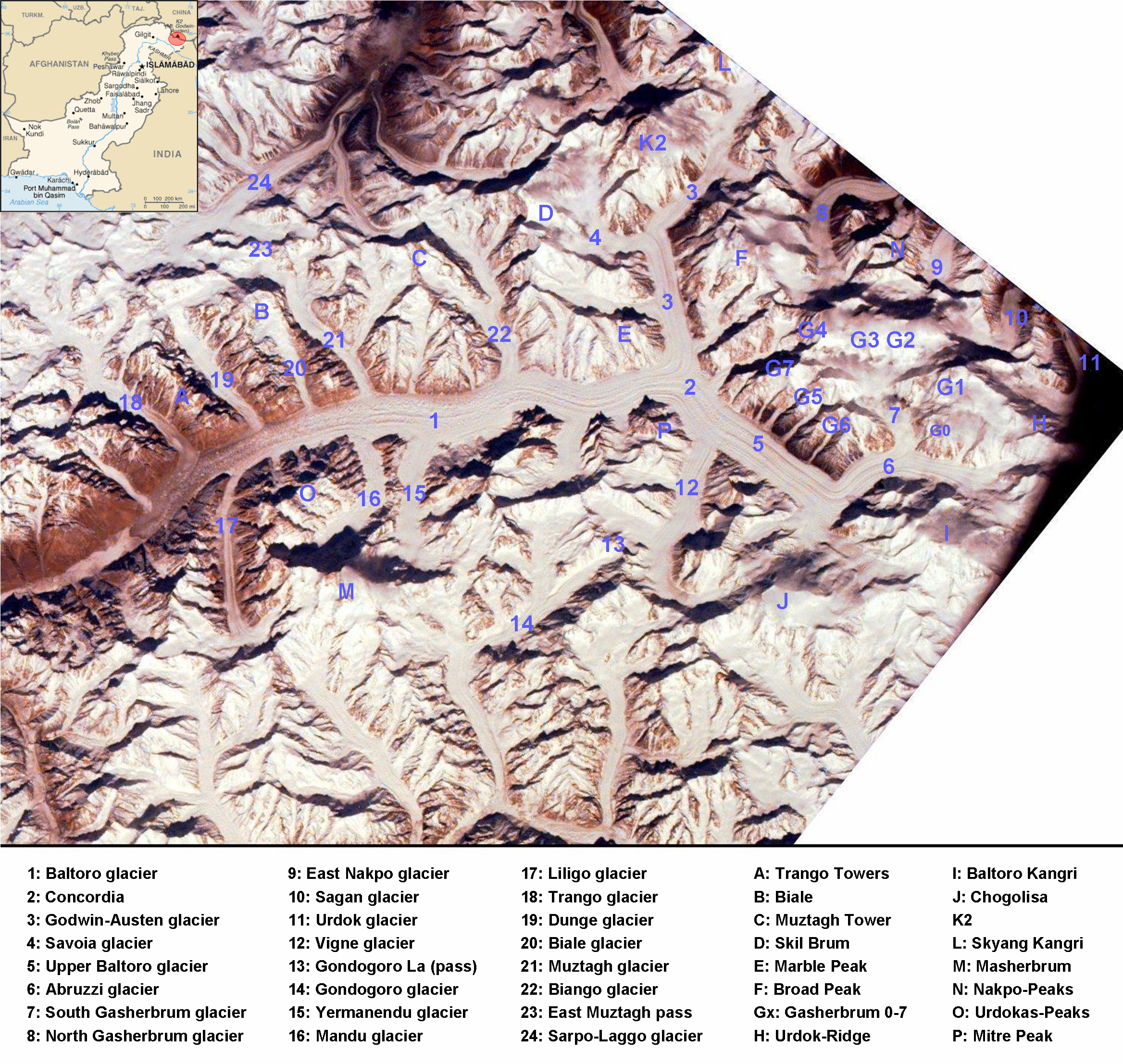 Baltoro region from space. Many mountains (e.g. K2, Broad Peak, Gasherbrums, Trango Towers) and glaciers are marked.